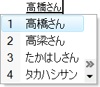 Simple example of Microsoft's Japanese input method editor